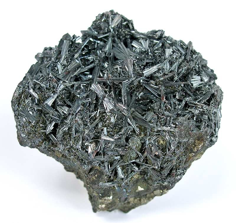 Hutchinsonite Locality: Quiruvilca Mine (La Libertad Mine; ASARCO Mine), Quiruvilca District, Santiago de Chuco Province, La Libertad Department, Peru (Locality at ) Size: 4.5 x 4.4 x 2.2 cm. This is one of the richest examples of the species out there. It is by far the richest piece I have seen for this rare thallium-rich sulfosalt. Not the biggest, but the most richly crystallized. It is composed of extremely robust, diverging sprays of acicular hutchinsonite crystals, many doubly terminated. The crystals, to .75 cm across, are lustrous, dark gray, and nearly cover the host matrix. This is an amazing specimen of the rare lead, thallium, sulpharsenide. From the collection of my mentor, Carlton Davis. Acquired in the early 1980s from dealer Gary Hansen.